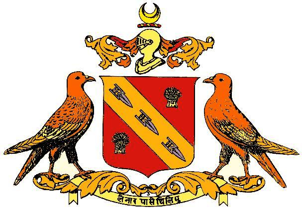 Coats of arms of Indian Princely State Balasinor Nawab Babi of.... Arms: Vert, on a bend Or between two garbs proper, three katars Gules. Crest: On a helmet to the dexter, lambrequined Vert and Or, a crescent (Argent). Supporters: Two pigeons proper. Motto: Lenar Pasethi Lidhu.